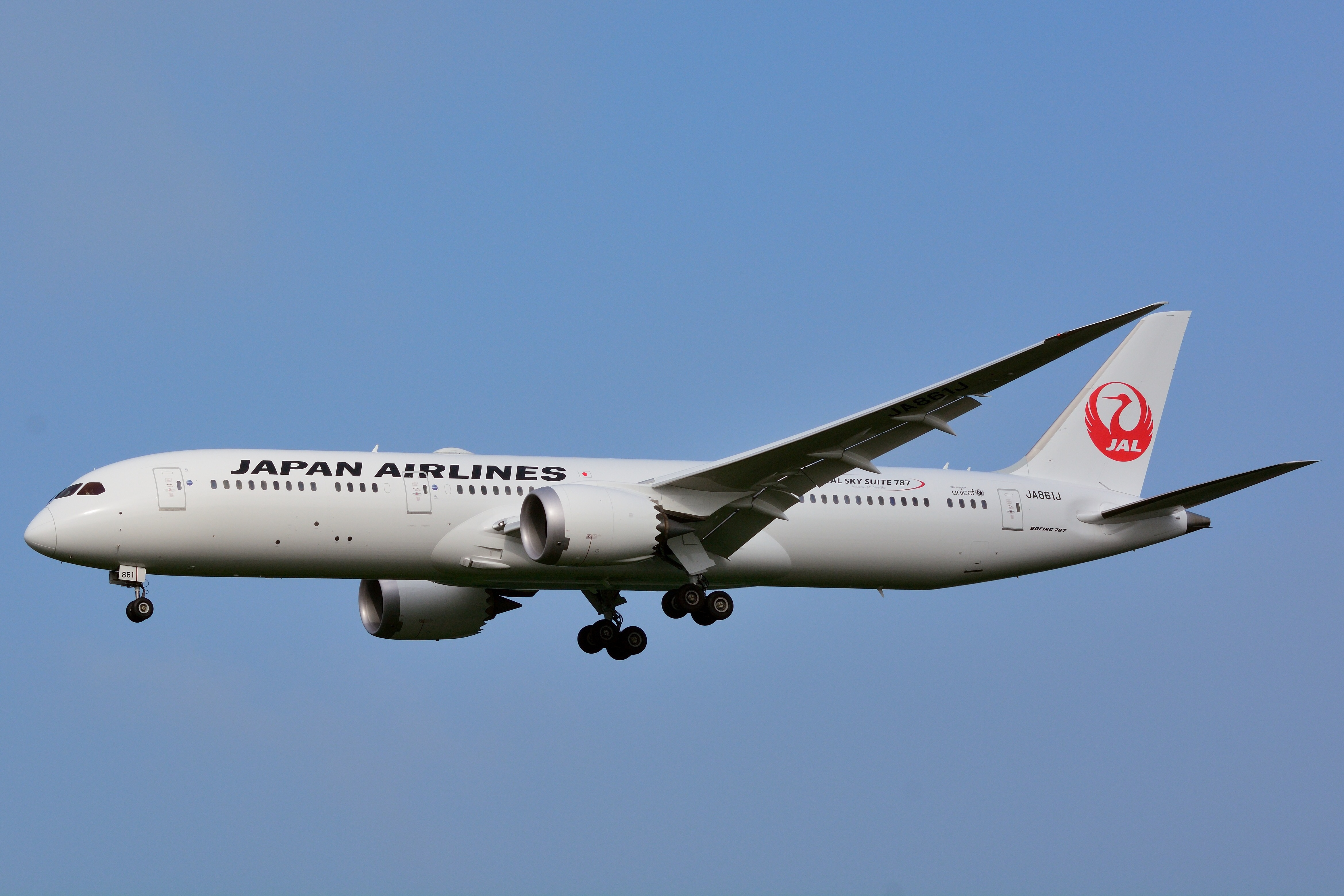 Japan Airlines Boeing 787-9 at Narita International Airport [NRT]